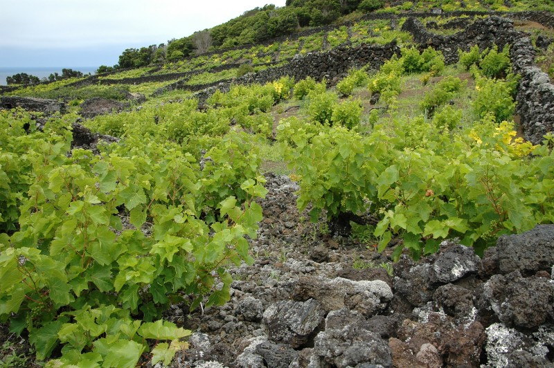 Vineyard on Pico island in Azores, a UNESCO World Heritage Site.